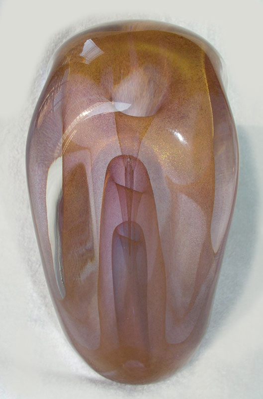 I own this Labino vase and the photograph which was taken by me. This vase is from the Smithsonian Institution's Renwick Gallery 1980 exhibit of Dominick Labino and other leaders of the Studio Art Glass Movement in the U.S.